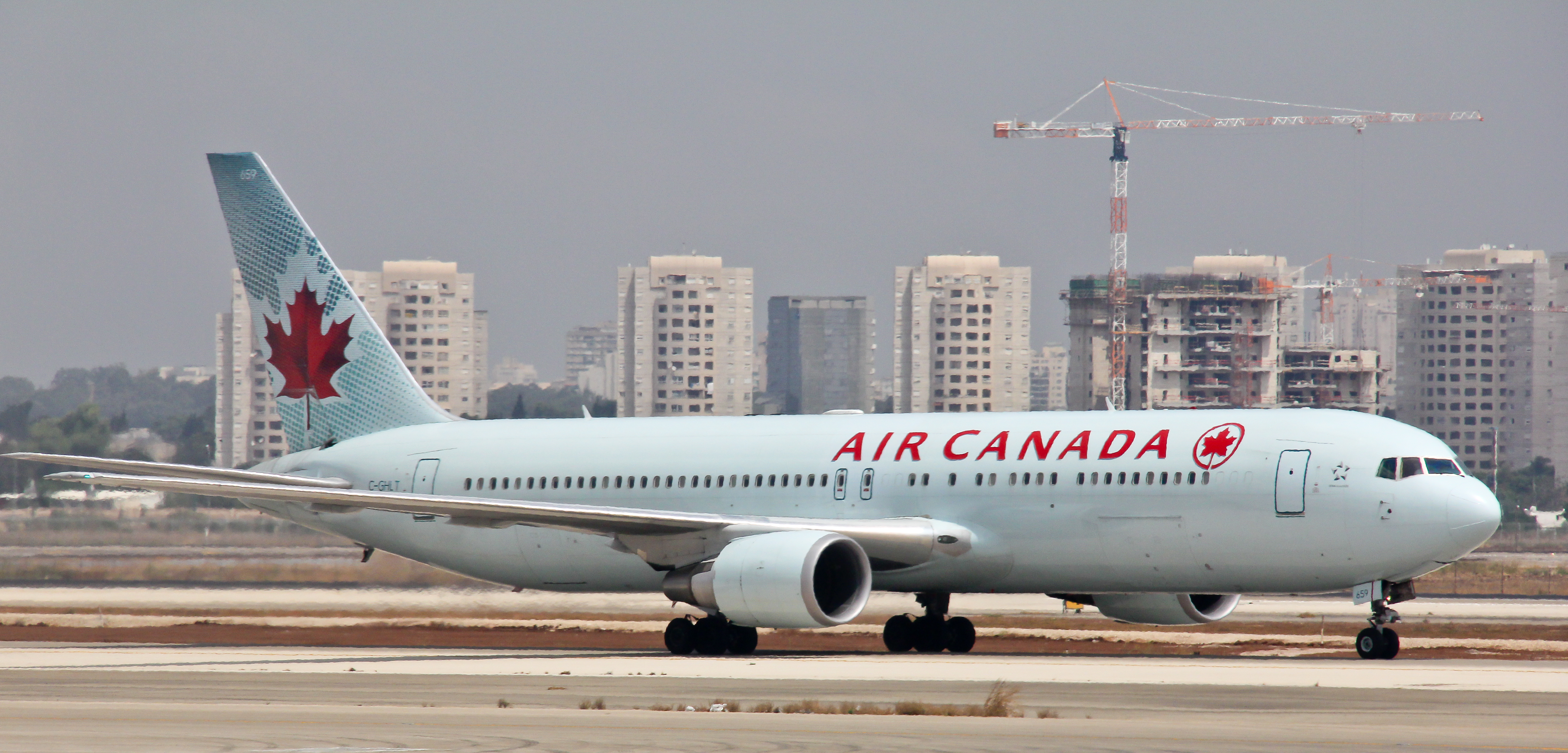 Air Canada - Boeing 767-333(ER) - Tel Aviv Ben Gurion, Registration C-GHLT